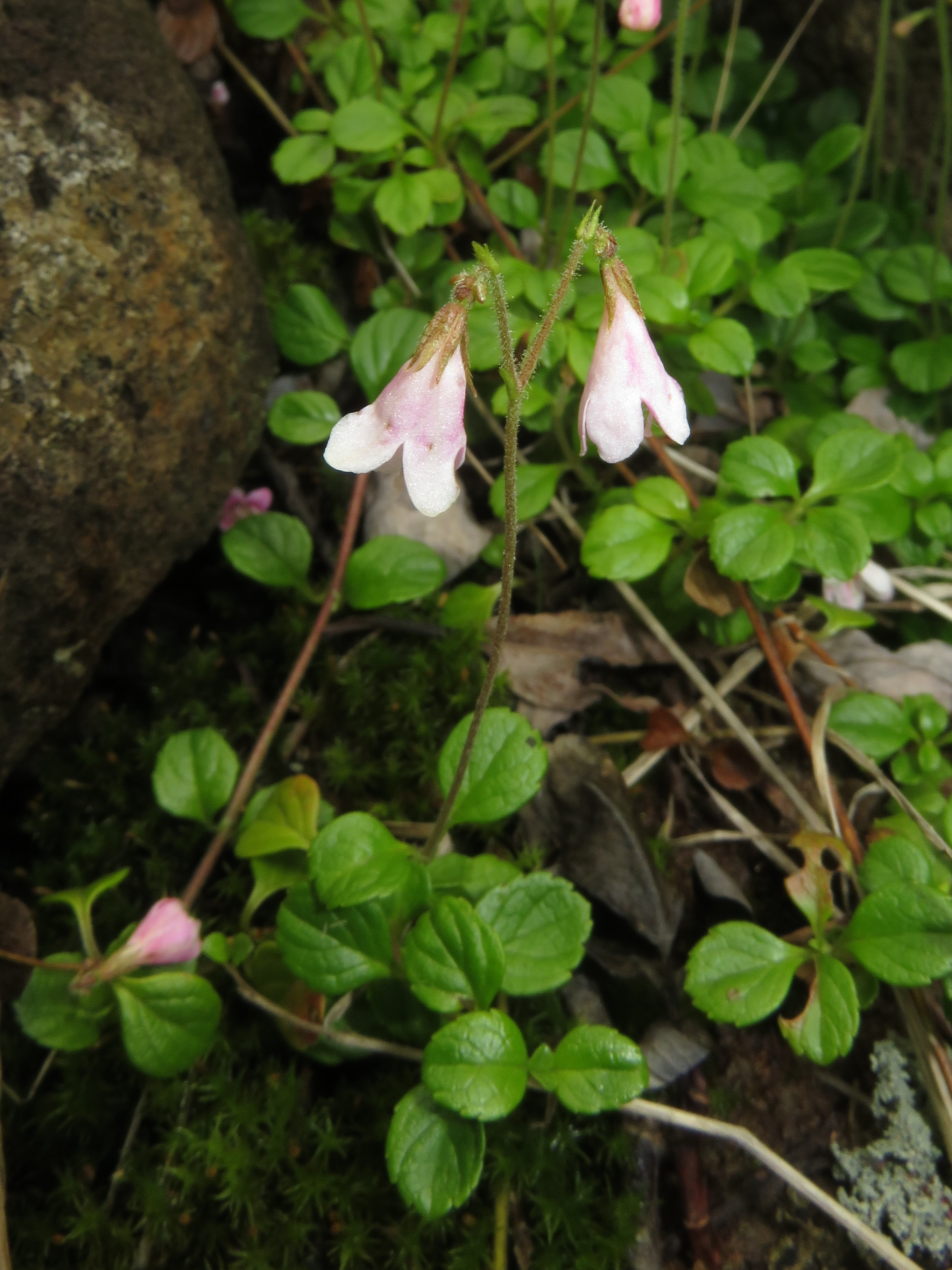 Linnaea borealis, Mount Nishi-Azumayama, Yamagata pref., Japan